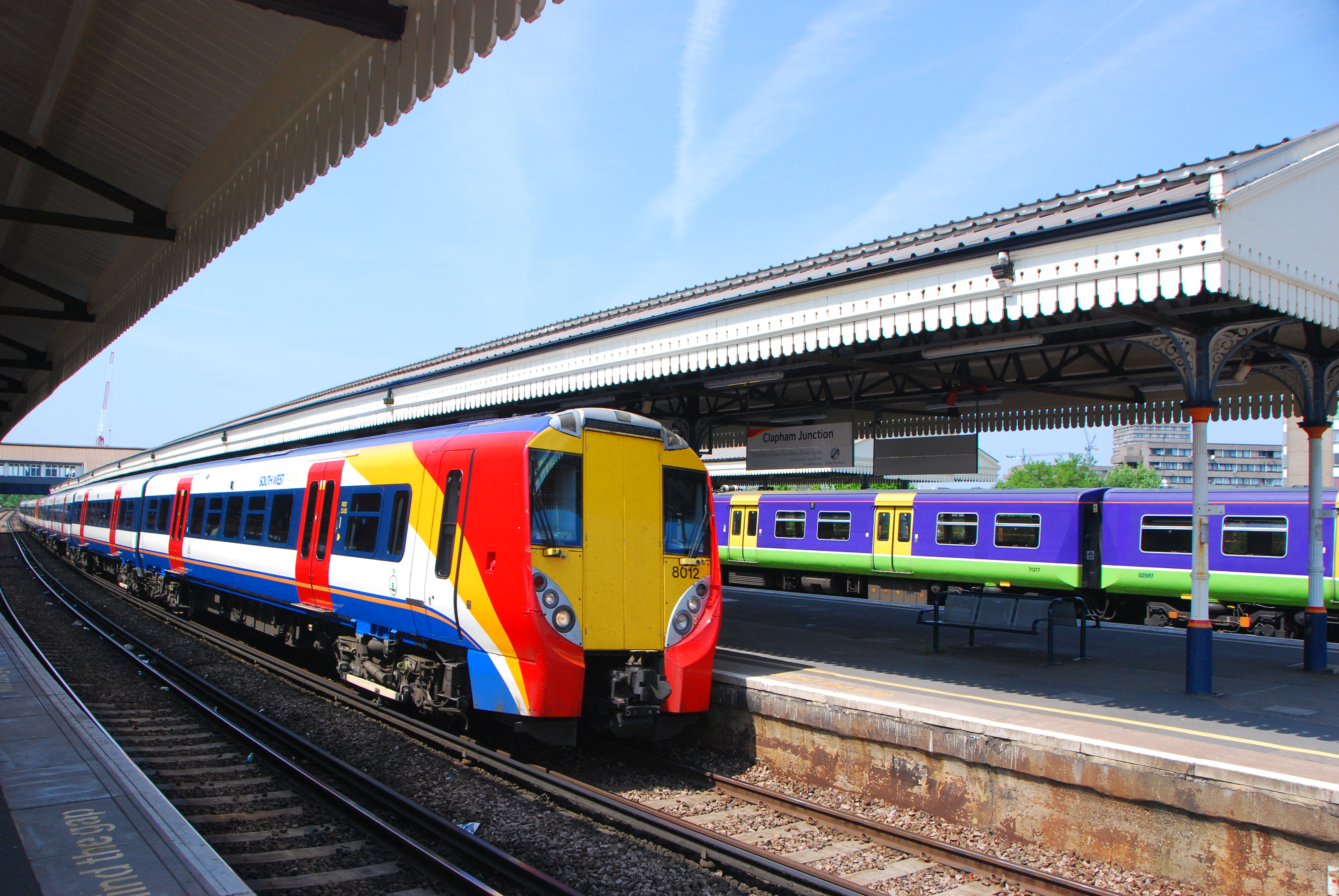 South West Trains 458 012 at Clapham Junction